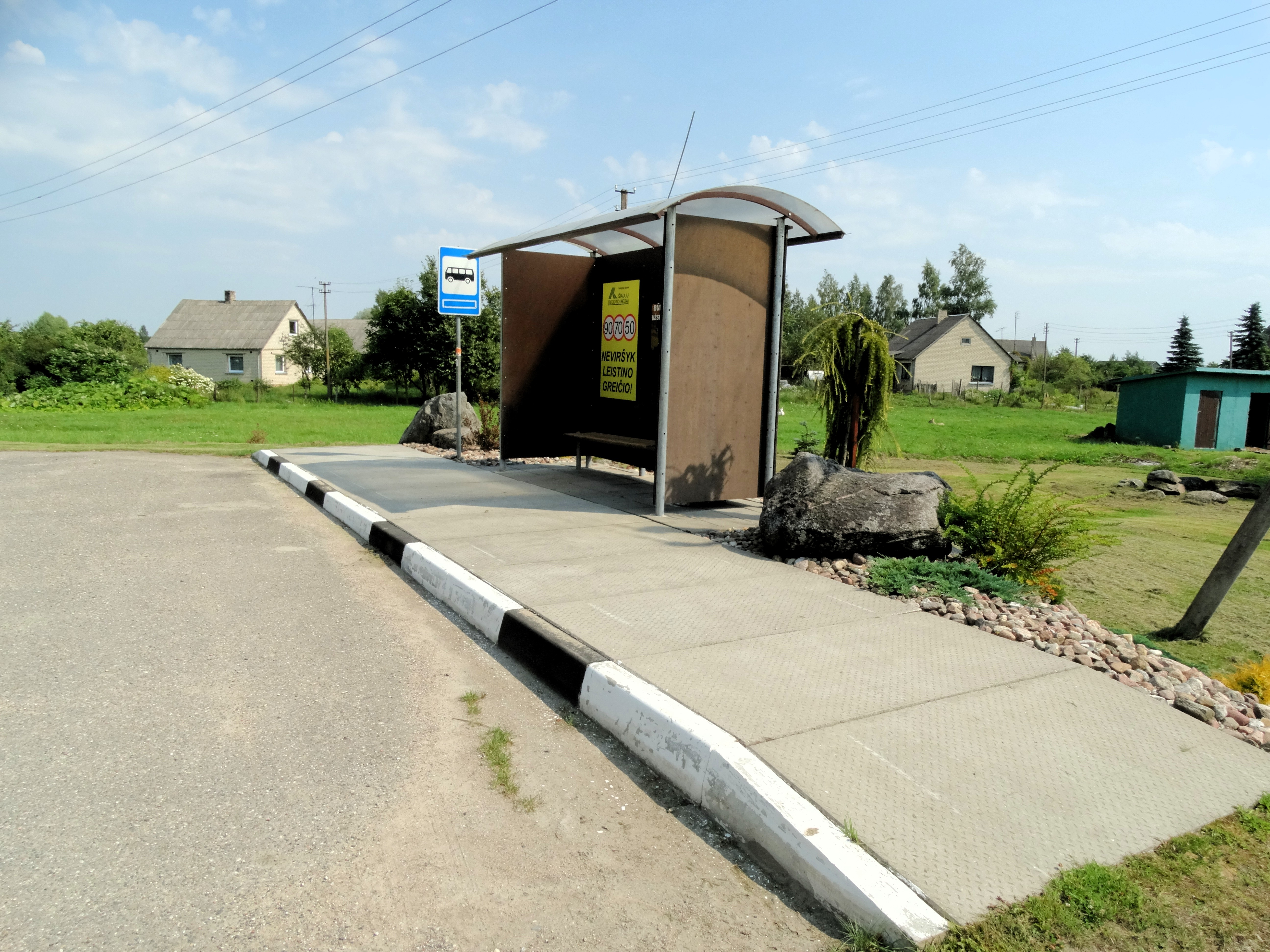 Gaižaičiai, Joniškis District, Lithuania